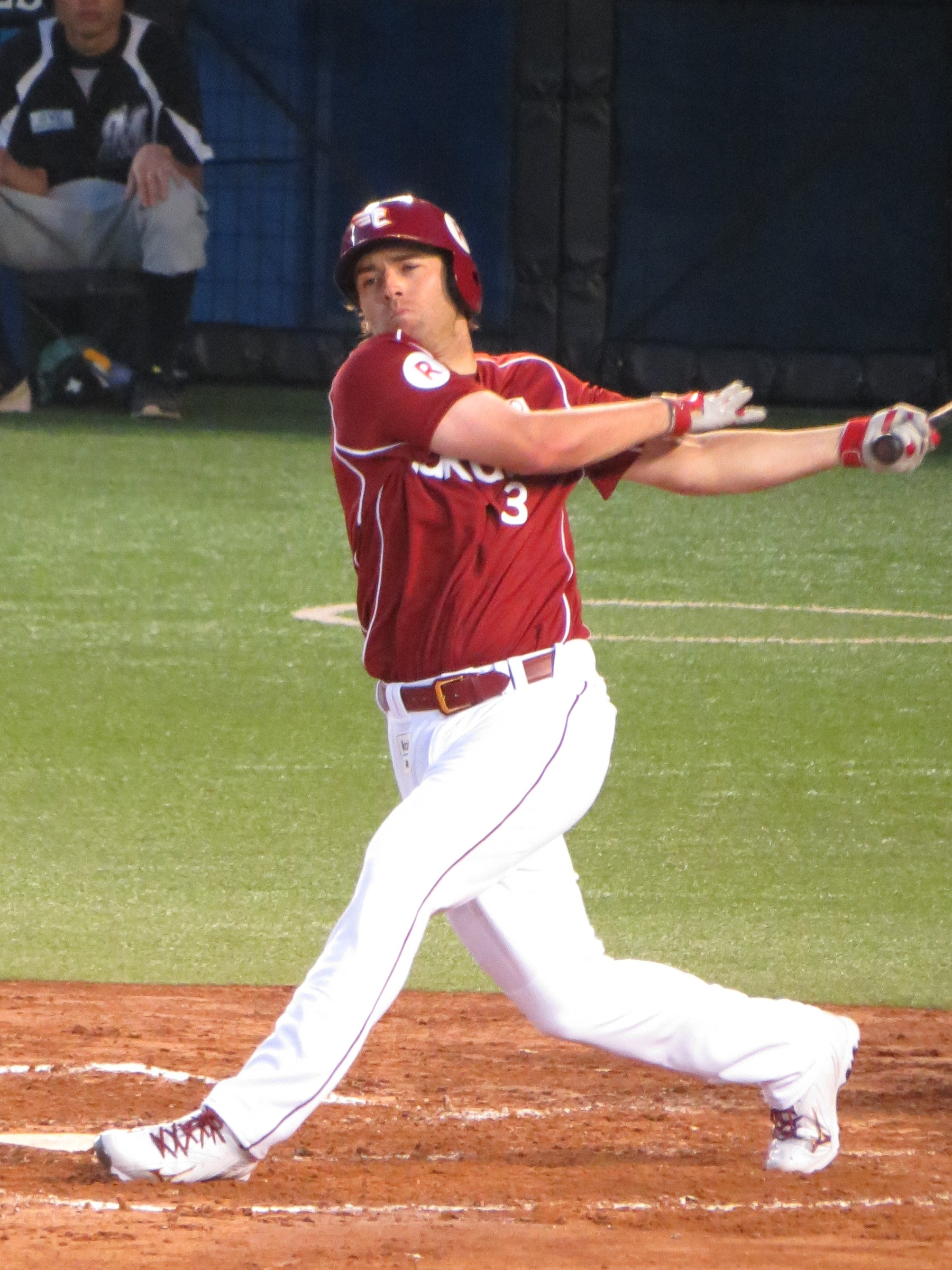 Nick Evans, infielder of the Tohoku Rakuten Golden Eagles, at Chiba Marine Stadium.